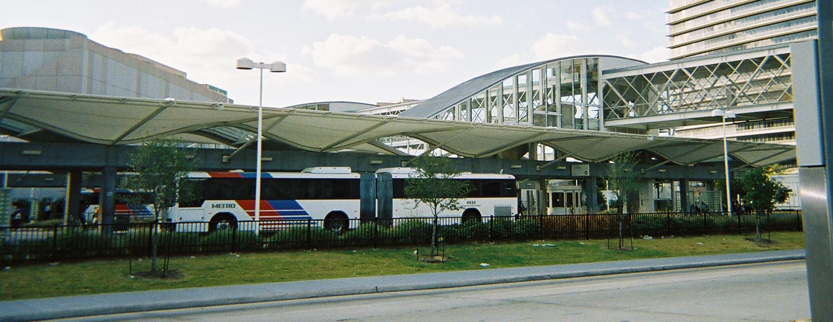 METRO buses at the TMC Transfer Station